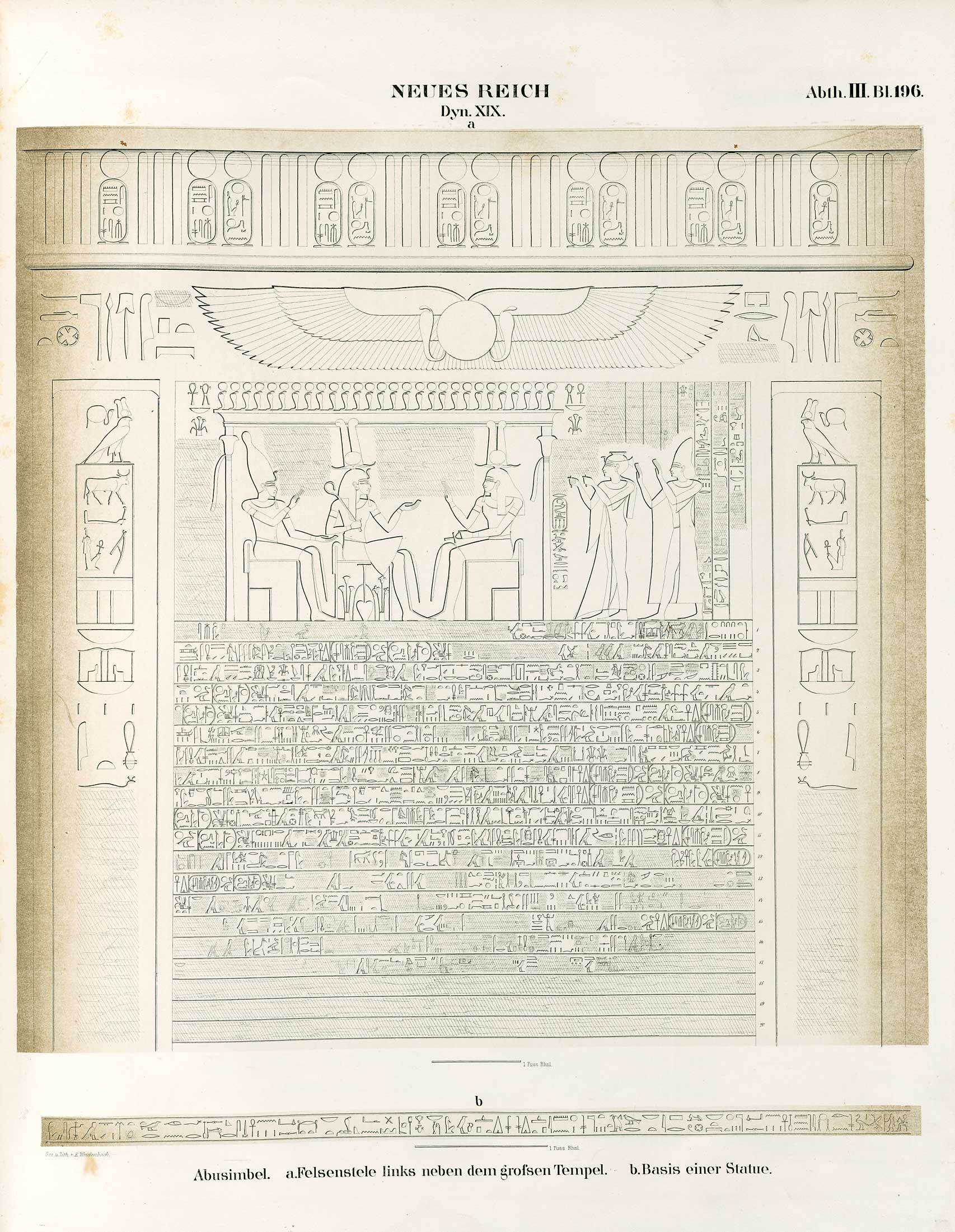 The marriage stela of Ramses II in Abu Simbel